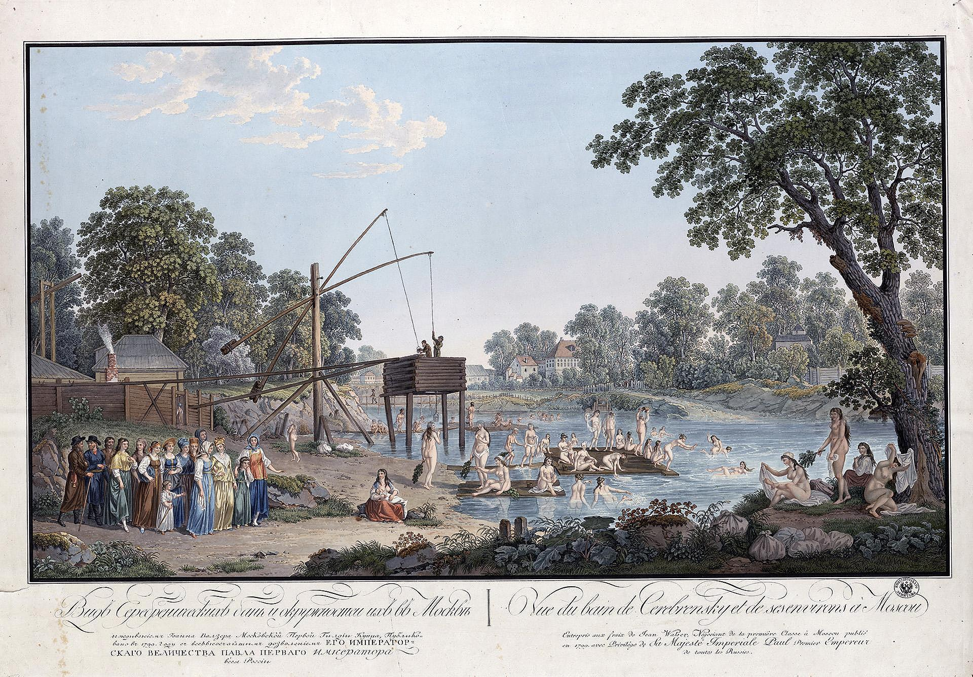 Coloured plate 3 from the definitive Twelve Views of Moscow by De la Barthe.